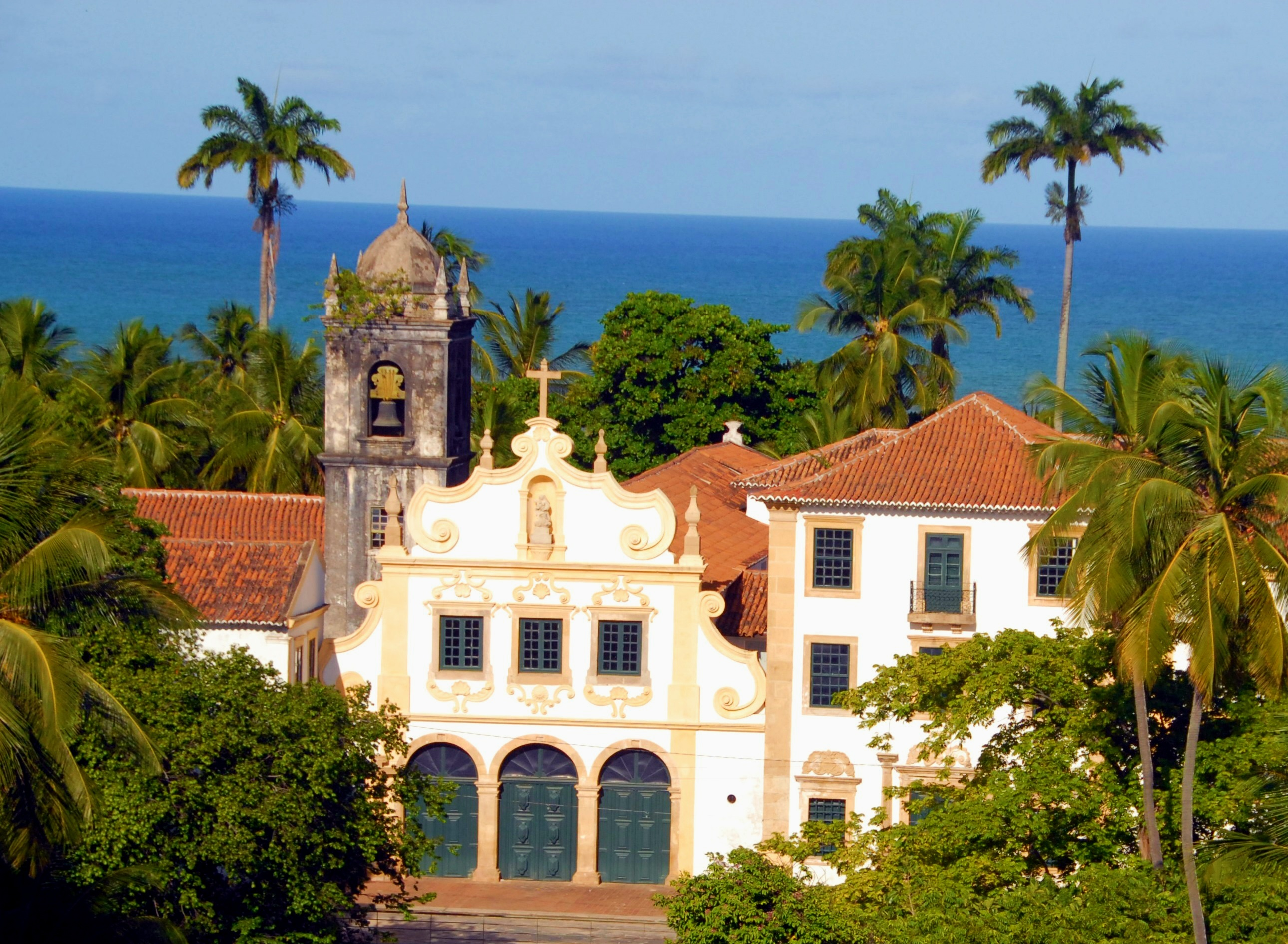 Convento de São Francisco, Olinda, Pernambuco, Brasil.